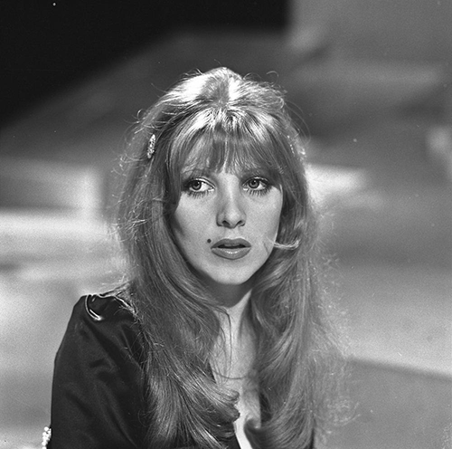 Lynsey De Paul in AVRO's TopPop (Dutch television show) in 1973